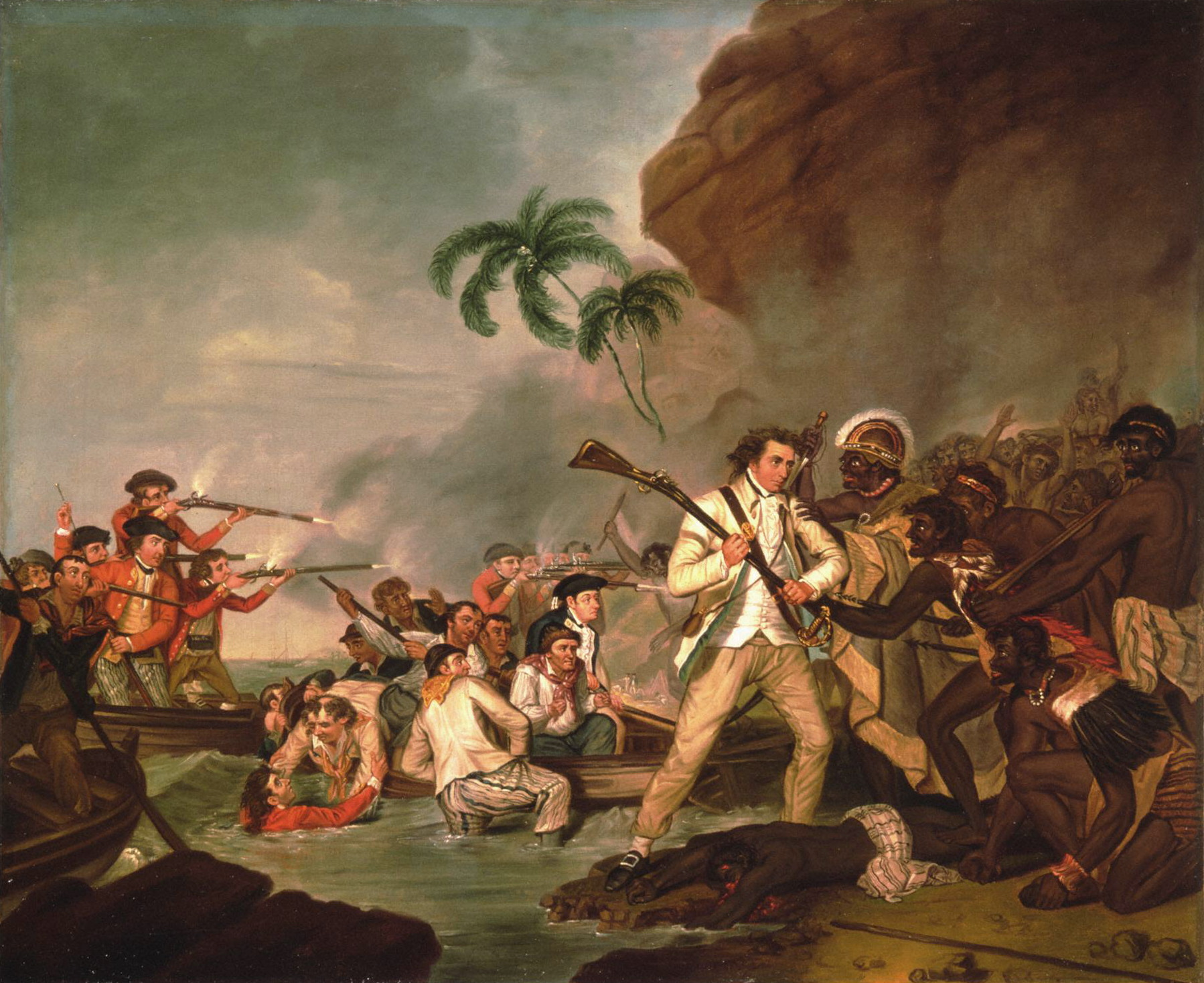 Death of Captain James Cook, oil on canvas by George Carter, 1783, Bernice P. Bishop Museum